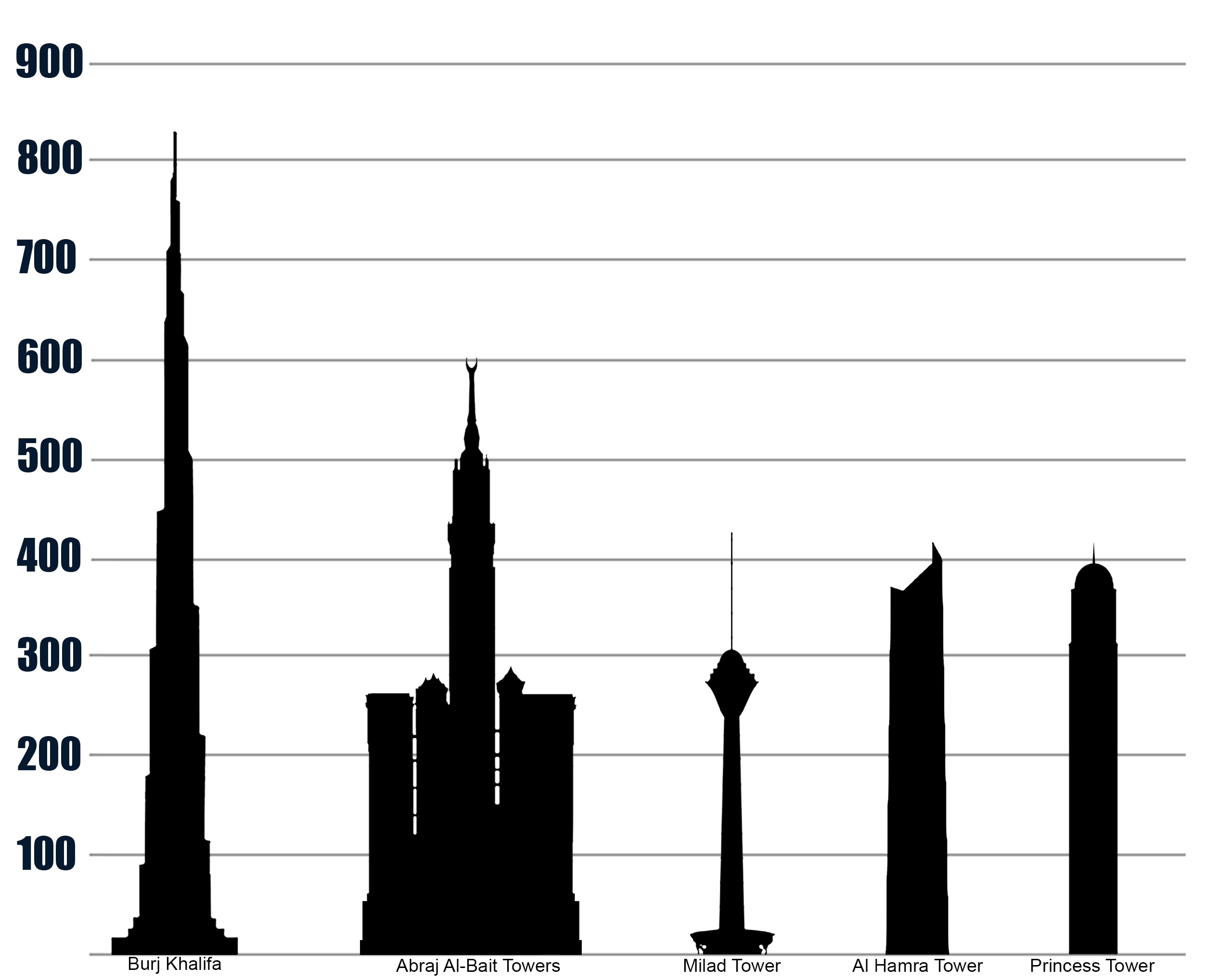 Tallest buildings in Middle East in 2014; Used data from .